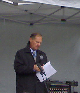 Timo P. Nieminen. Mayor of Tampere, Finland. (2006)